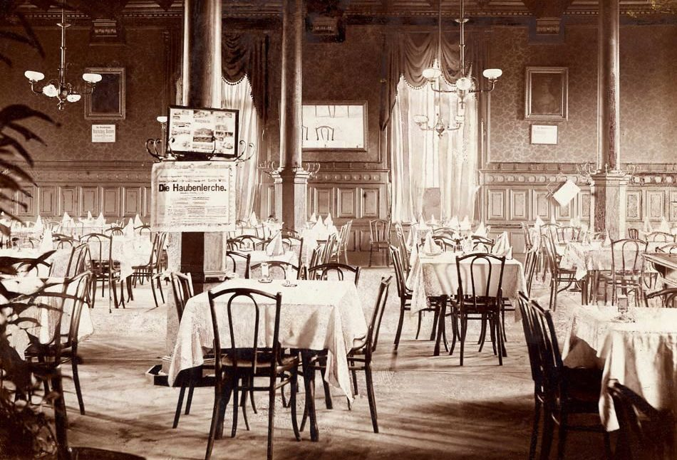 House of Germans, Brno, Czech Republic